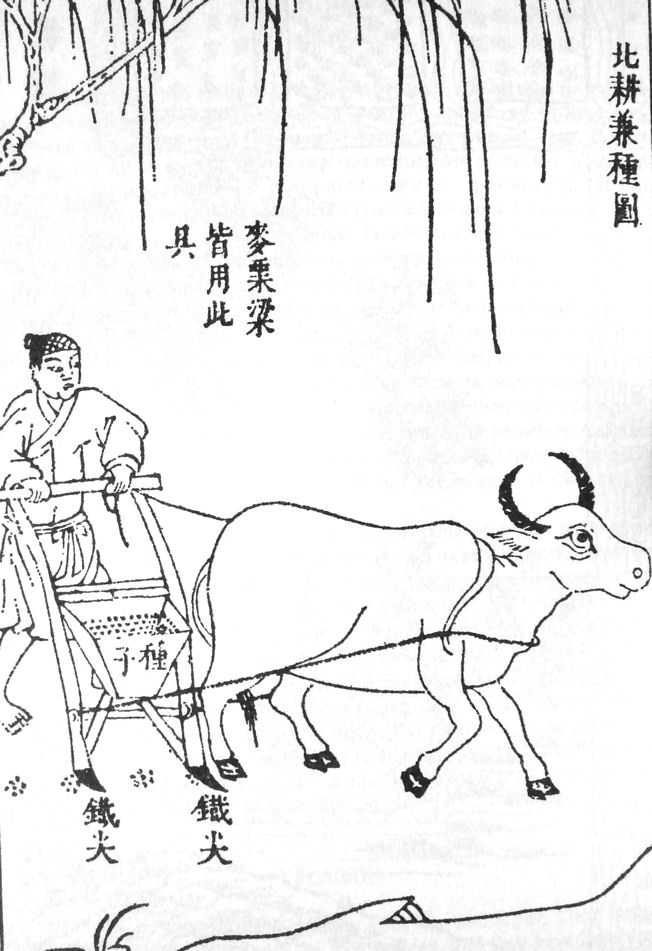 ChineseSeedDrill1637